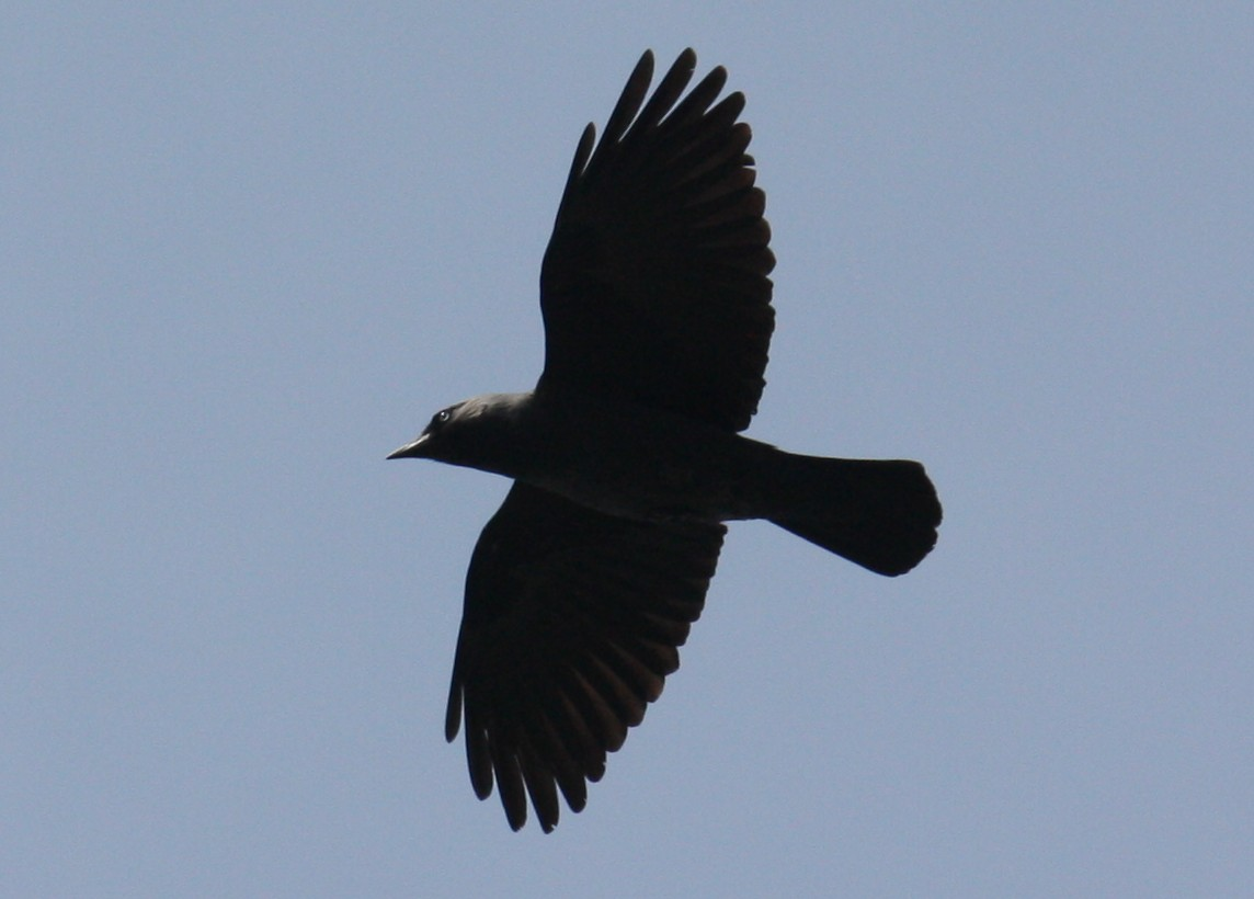 Flying Western Jackdaw